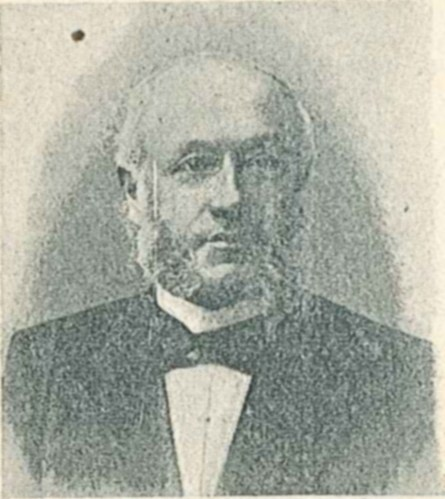 Swedish politician Nils Jacob Nilsson i Grofva. From page 8 of an album featuring portraits of all the members of the second chamber of the Swedish parliament (Sveriges riksdag) elected in 1897.